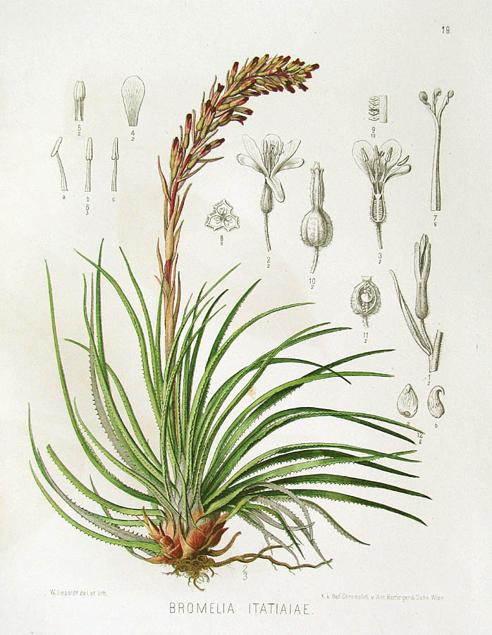 Fernseea itatiaiae (Wawra) Baker. Published as Bromelia itatiaiae Wawra. Drawing and lithography Wenzel Liepoldt, Itinera principum S. Coburgi vol.1 plate 19 (1883).